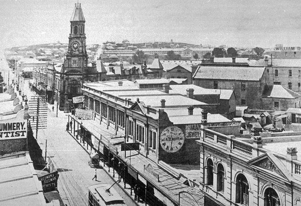 In the right foreground is part of Manning Buildings (109-113). The clock indicates where A O Kopp, watchmaker and jeweller ran his shop from 1899 until anti German riots in World War I forced him to leave his business. Manning Chambers (1906) on the corner of William and High Streets was designed by architects Cavanagh and Cavanagh and built by Abbot and Rennie. The Town Hall (1887) and Central Buildings are in the left background. Behind in the centre is the prison.